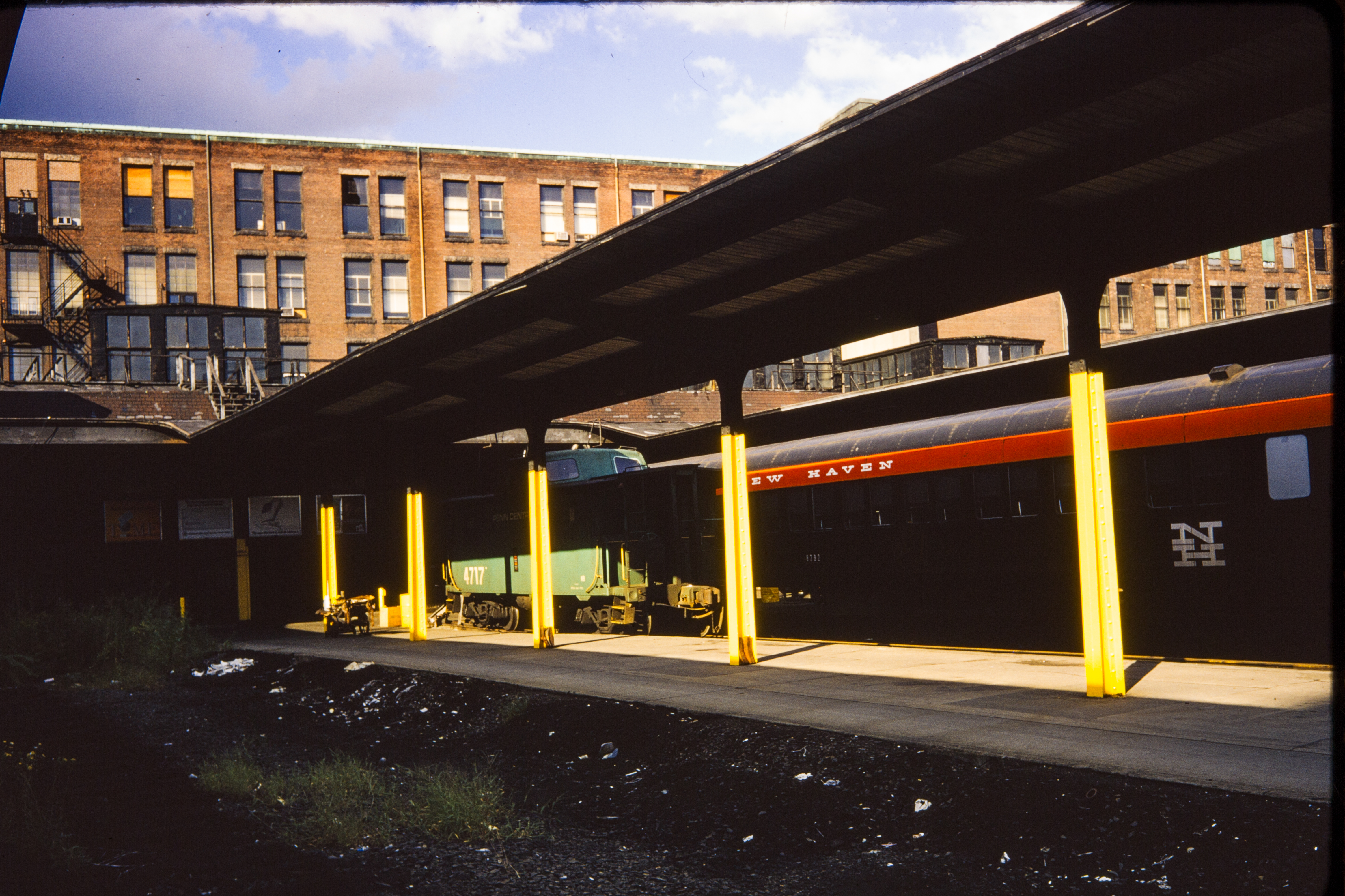 A train at Boston's South Station in 1970